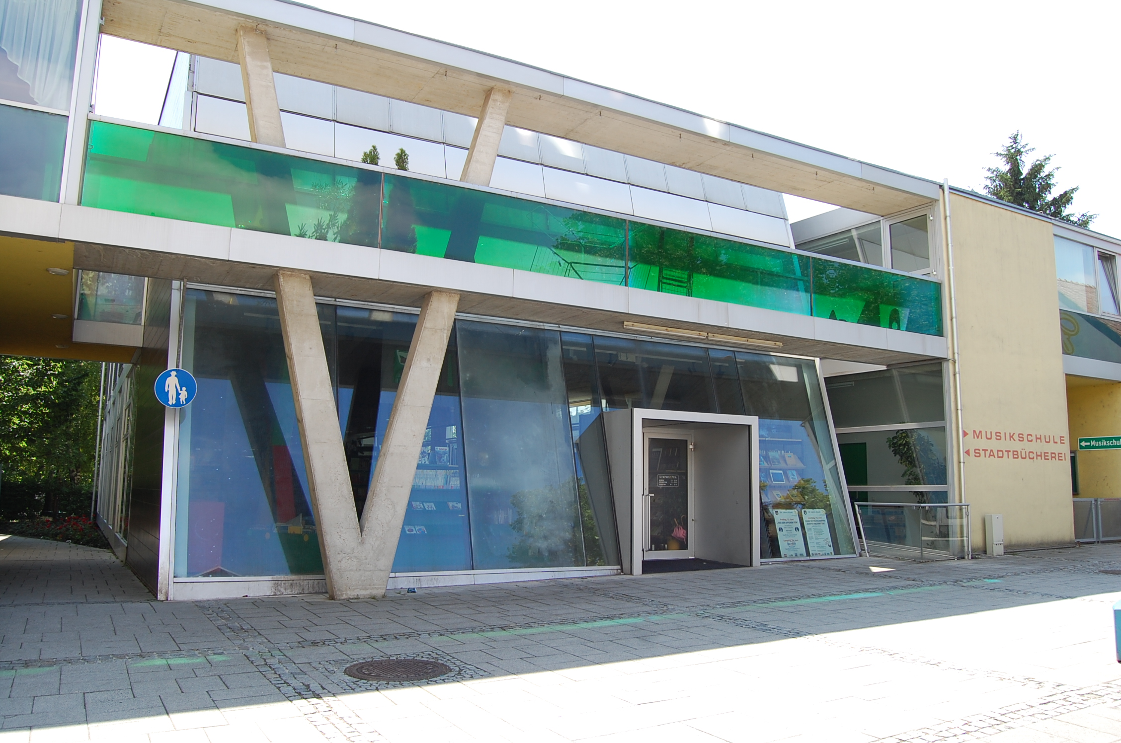 Public library and music school Gänserndorf.